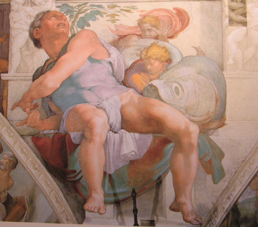 Sistine Chapel Jonah, after restoration